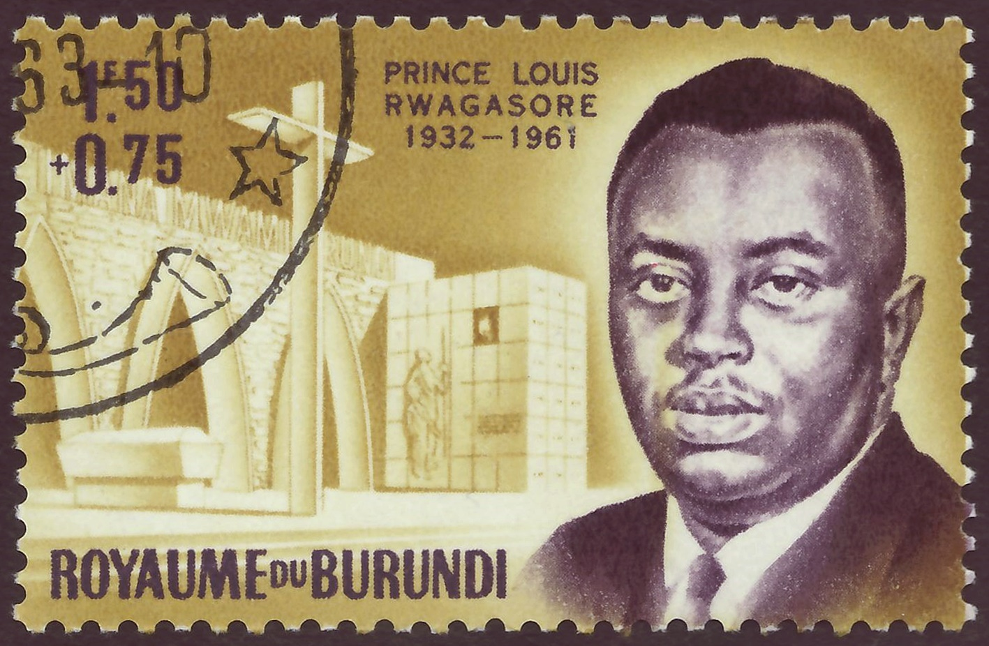 Stamp of the Kingdom of Burundi ("Royaume du Burundi"); 1963; semi-postal stamp of the issue "Remembrance of Prince Louis"; stamp motive with a portrait of Prince Louis and the main entrance to the "Prince Louis Memorial"; stamp postmarked Note: The "Ganwa"-Prince Louis Rwagasore (1932-1961) was the son of the King of Burundi Mwambutsa IV Bangiricenge (1912-1977) and elected "Premier Ministre" of Burundi in 1961. He was murdered by militant extremists of the political opposition on 13 October 1961. Stamp: Michel No. 44A; Yvert & Tellier: No. 45; Scott: No. B3 Color: dark yellow / dark brown violet Watermark: none Nominal value: 2.25 F = 1.50 F + 0.75 F (Francs) (0.75 Francs as surcharge for the "Prince-Louis-Memorial"-fund) Postage validity: from 15 December 1963 until ? Stamp picture size (printed area of a single stamp as distance between the tangents of the perforation lines): 39.0 x 24.5 mm